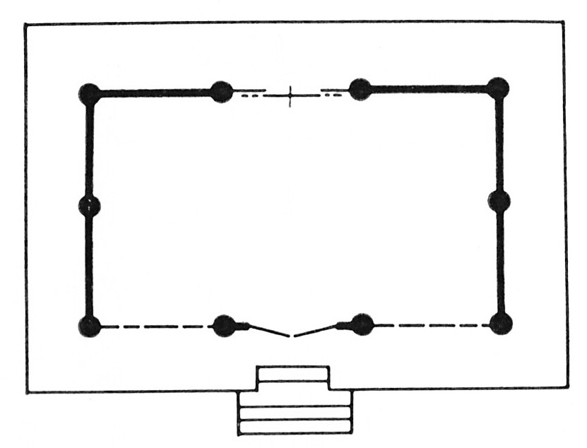 Monju Hall at Kaijūsen-ji